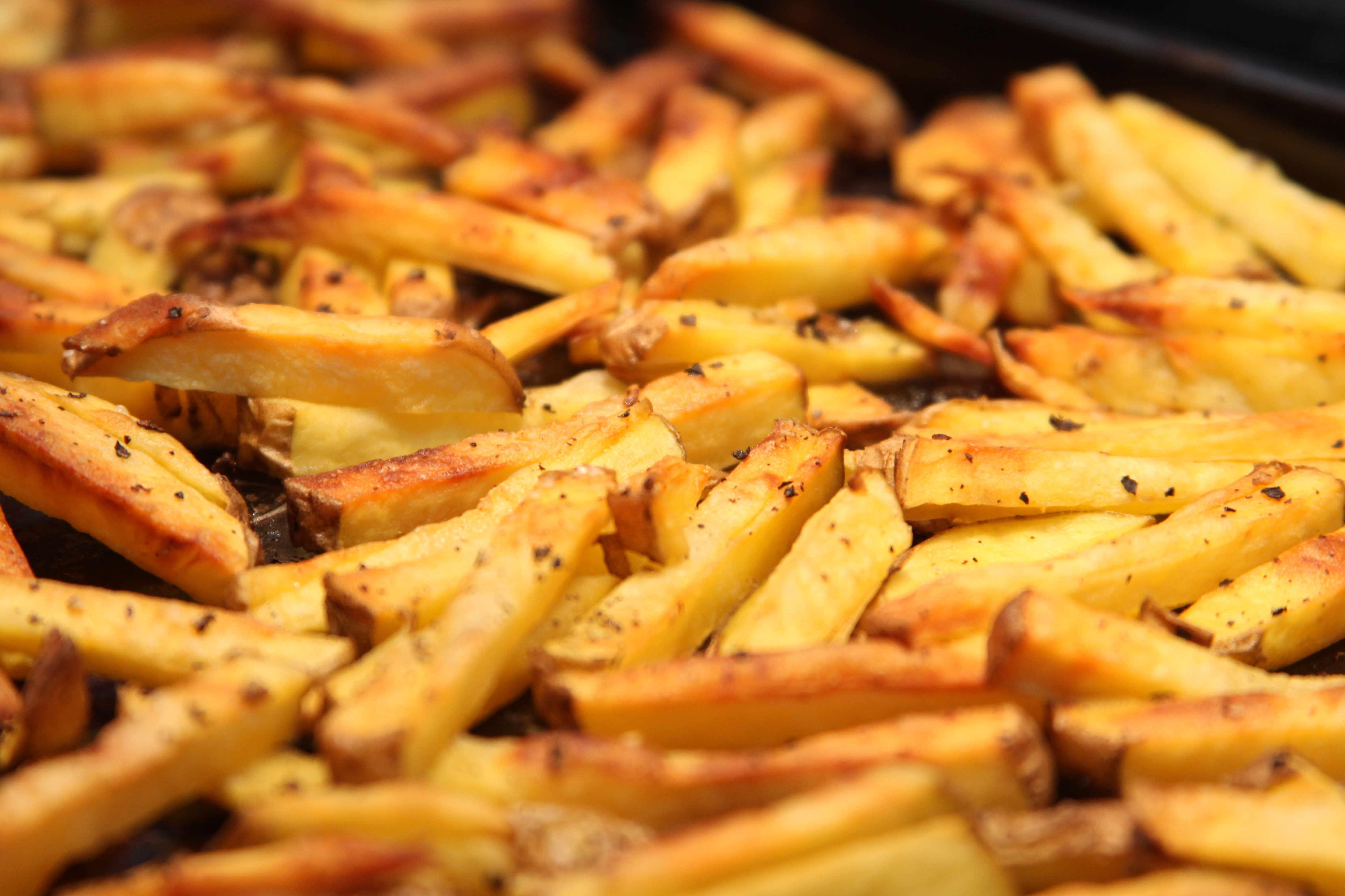 .. and crunchy as all get out! Check out our quick recipe over on CliqueClack Food.